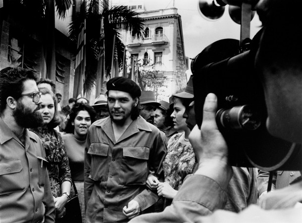 Alberto Korda taking a picture of Che Guevara walking through a throng of cameramen down the streets in Havana, Cuba, with arms linked to his wife Aleida March.